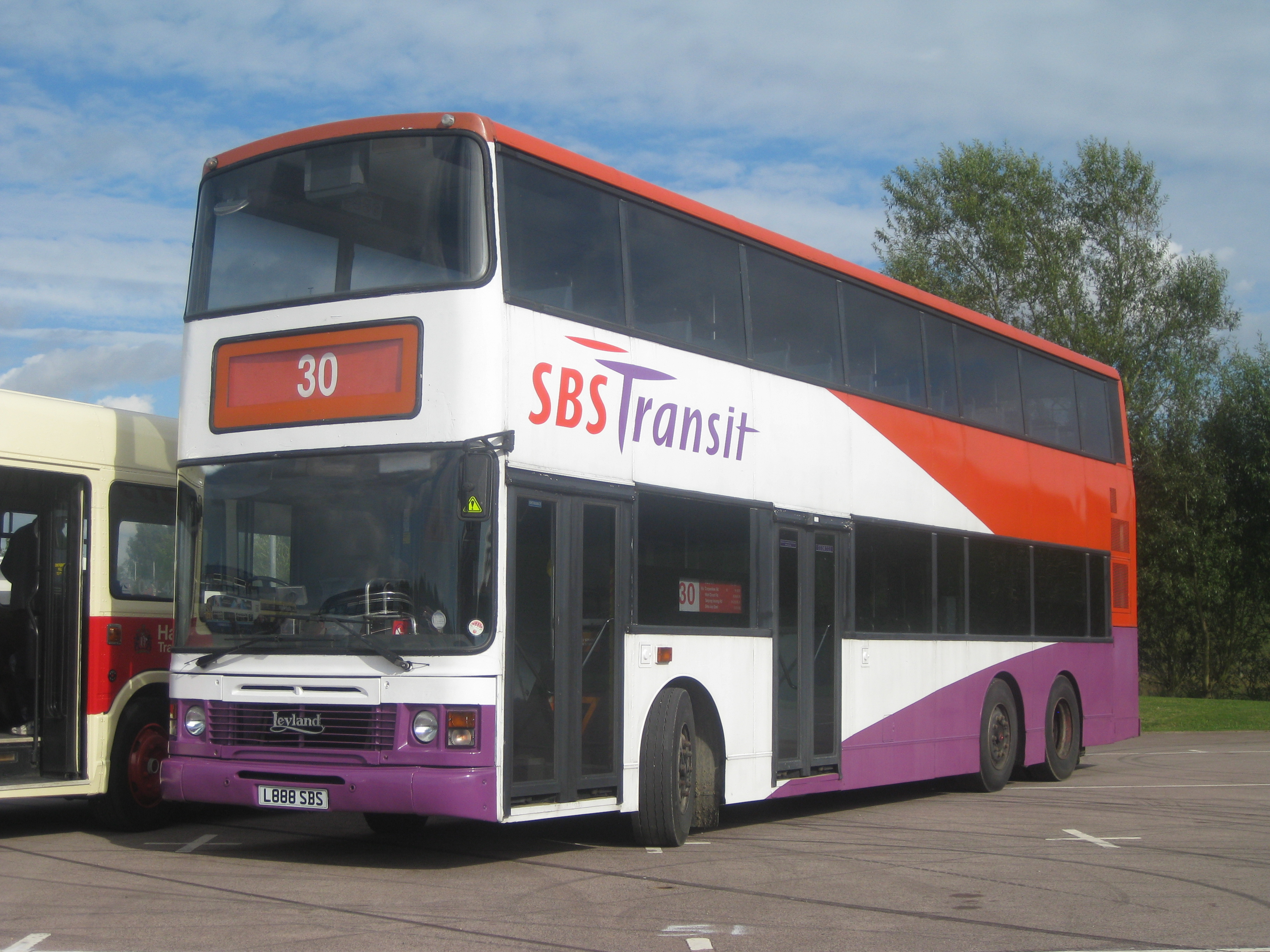 Preserved L888SBS was SBS Transit, Singapore SBS9168S. This bus was imported into the UK in 2013 after serving Singapore for 19 years, this vehicle has historical significance as it was the very last Leyland vehicle ever built; after chassis ON21080 rolled off the production line the Leyland marque became history. It's also the only complete Alexander Royale bodied Leyland Olympian left in existence since the other 199 in the batch were retired. It's bus rally debut in the UK was here at the Buses Magazine rally in Gaydon on 31/08/2014.